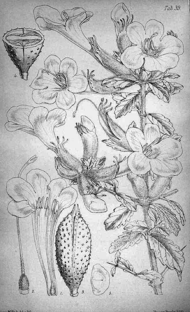 Catophractes alexandri D. Don (as Catophractes welwitschii Seemann), Journal of botany, British and foreign, vol. 3: t. 39 (1865)